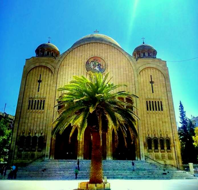 Saint George's church, Aleppo.